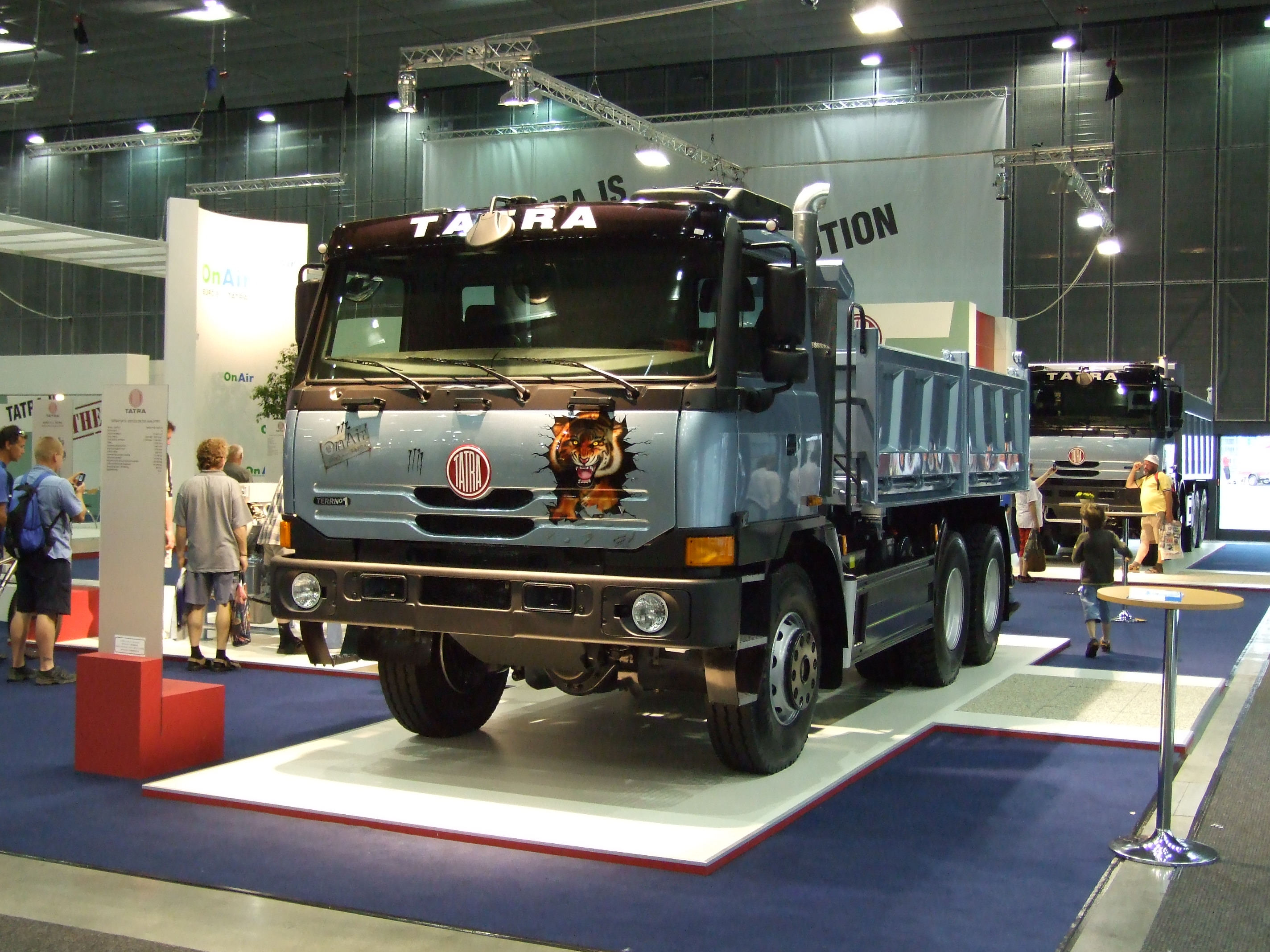 Tatra TerrNo1 at 12th Autotec bus/truck/car fair in Brno, CZ